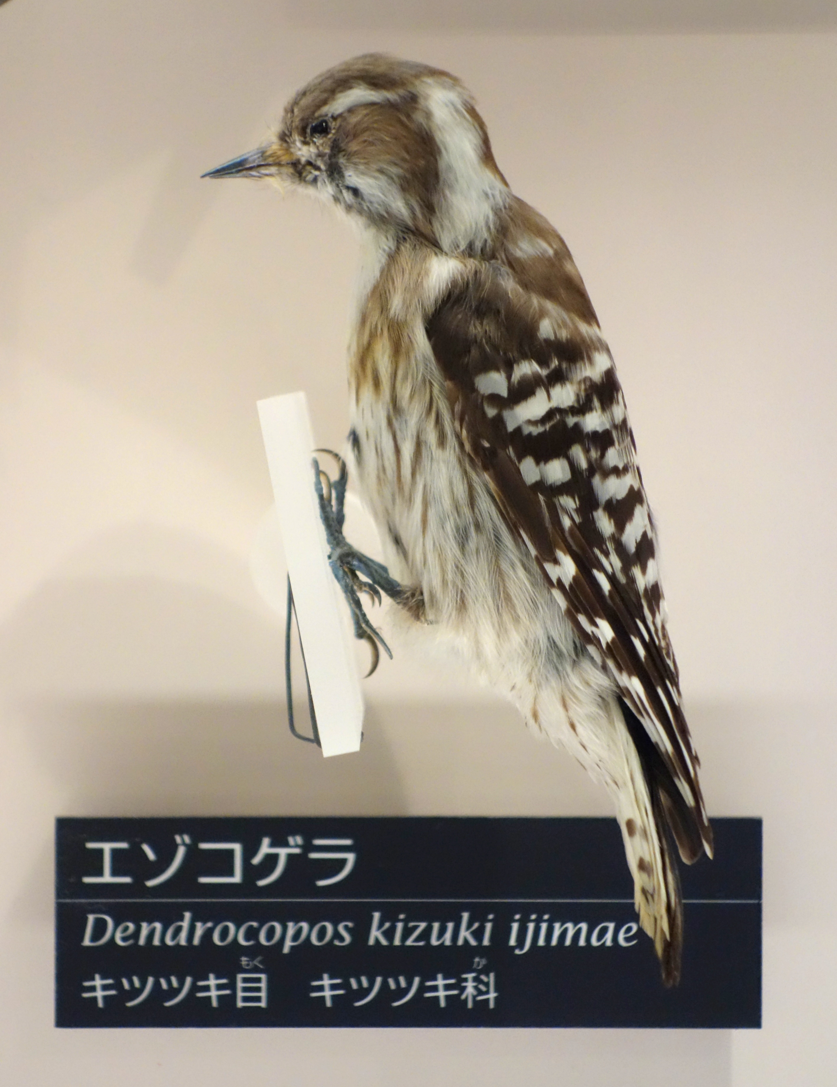 Exhibit in the National Museum of Nature and Science, Tokyo, Japan.